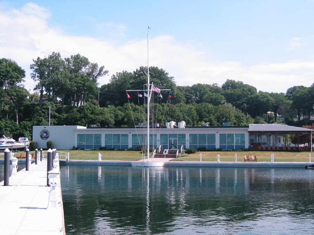 Clubhouse 3